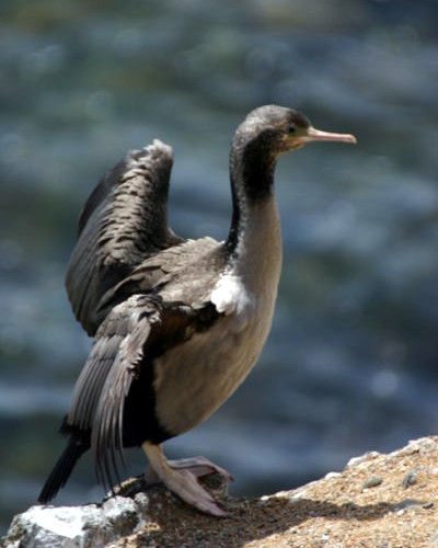 Spotted Shag, Stictocarbo punctatus, South Island New Zealand by Brian Gratwicke